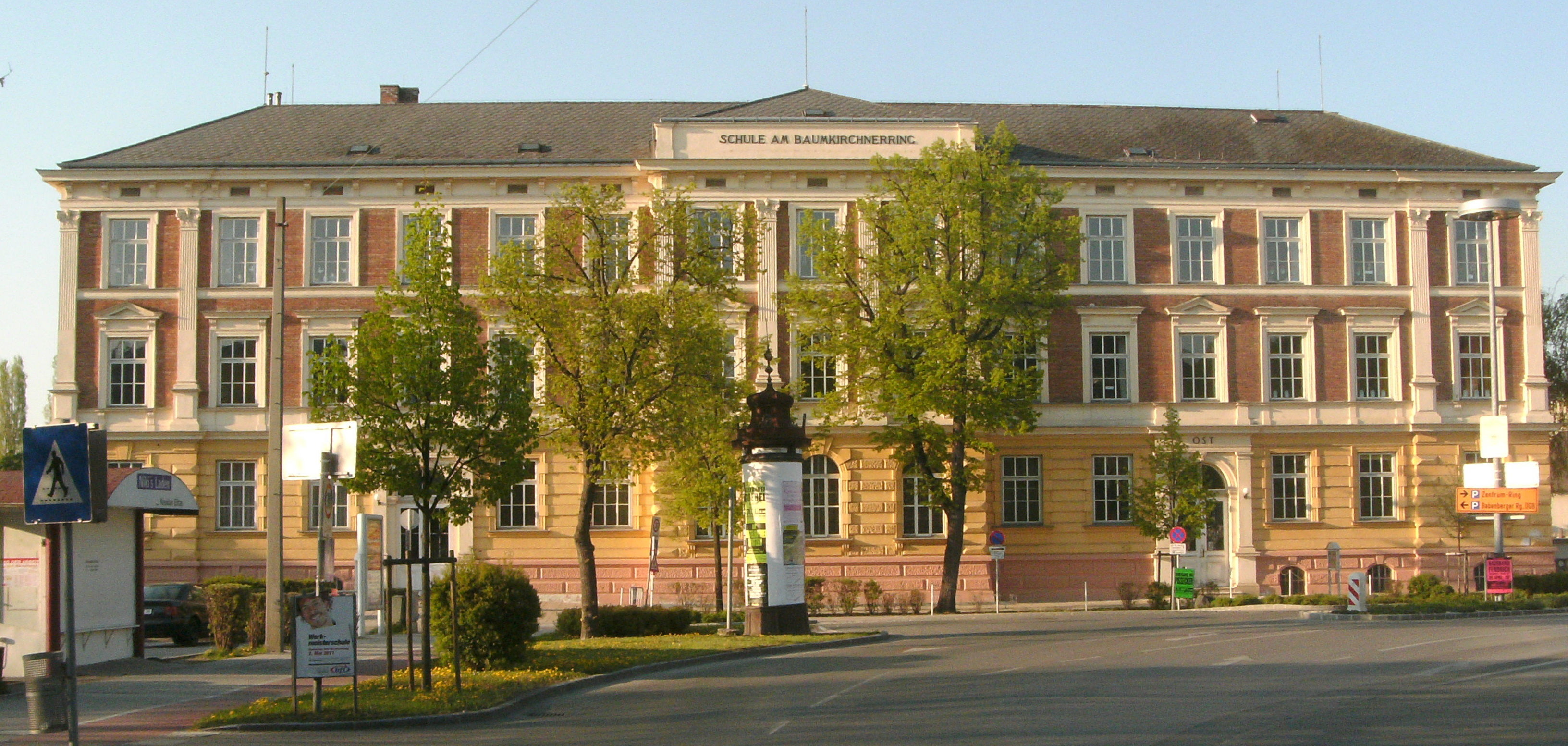 Baumkirchnerring school building, Wiener Neustadt, Lower Austria